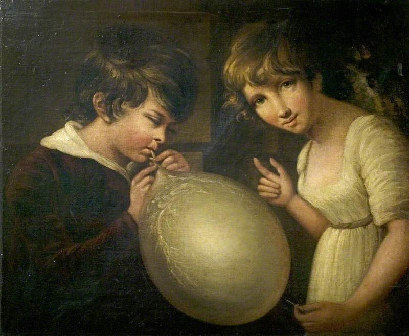 William Tate (1747 – 2 June 1806) was an English portrait painter who was a student of Joseph Wright of Derby.